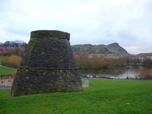 Lochend Park -- View over the loch, looking towards Arthur's Seat in the distance. The 16thC bee-hive doocot in the foreground belonged to the Logans of Restalrig who acquired the land in 1382 and lived in Lochend Castle on a nearby crag. In the 1950s, local children were warned that the loch was 'bottomless', having swallowed an entire horse and cart which disappeared without trace - presumably an urban myth aimed at scaring children away from the obvious danger; the loch was unfenced until well into the 1960s. Enjoy the view while it lasts, because new high-rise developments are slowly beginning to encroach upon the surrounding ground.